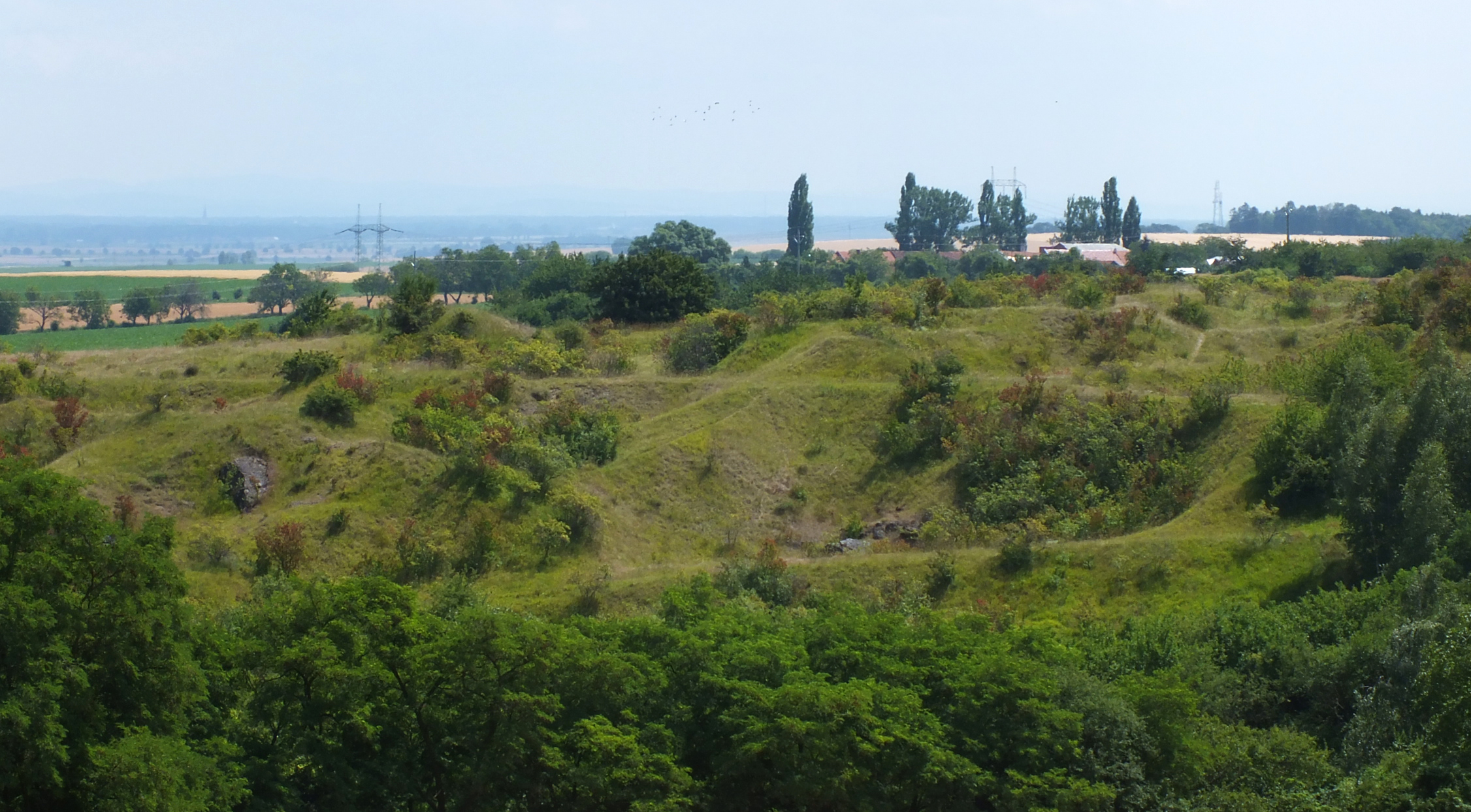 Natural monument Vápenice, near the village of Slatinky, the Czech Republic.